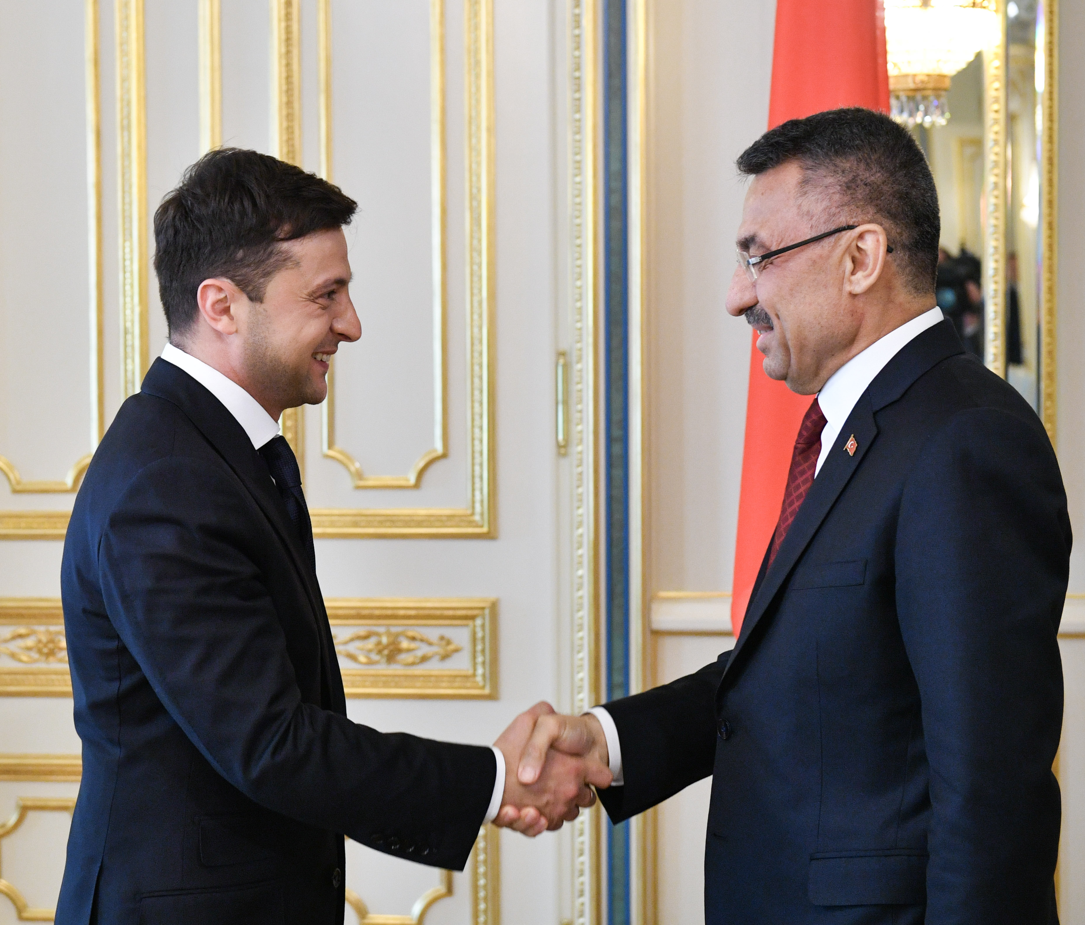 Volodymyr Zelensky with Fuat Oktay